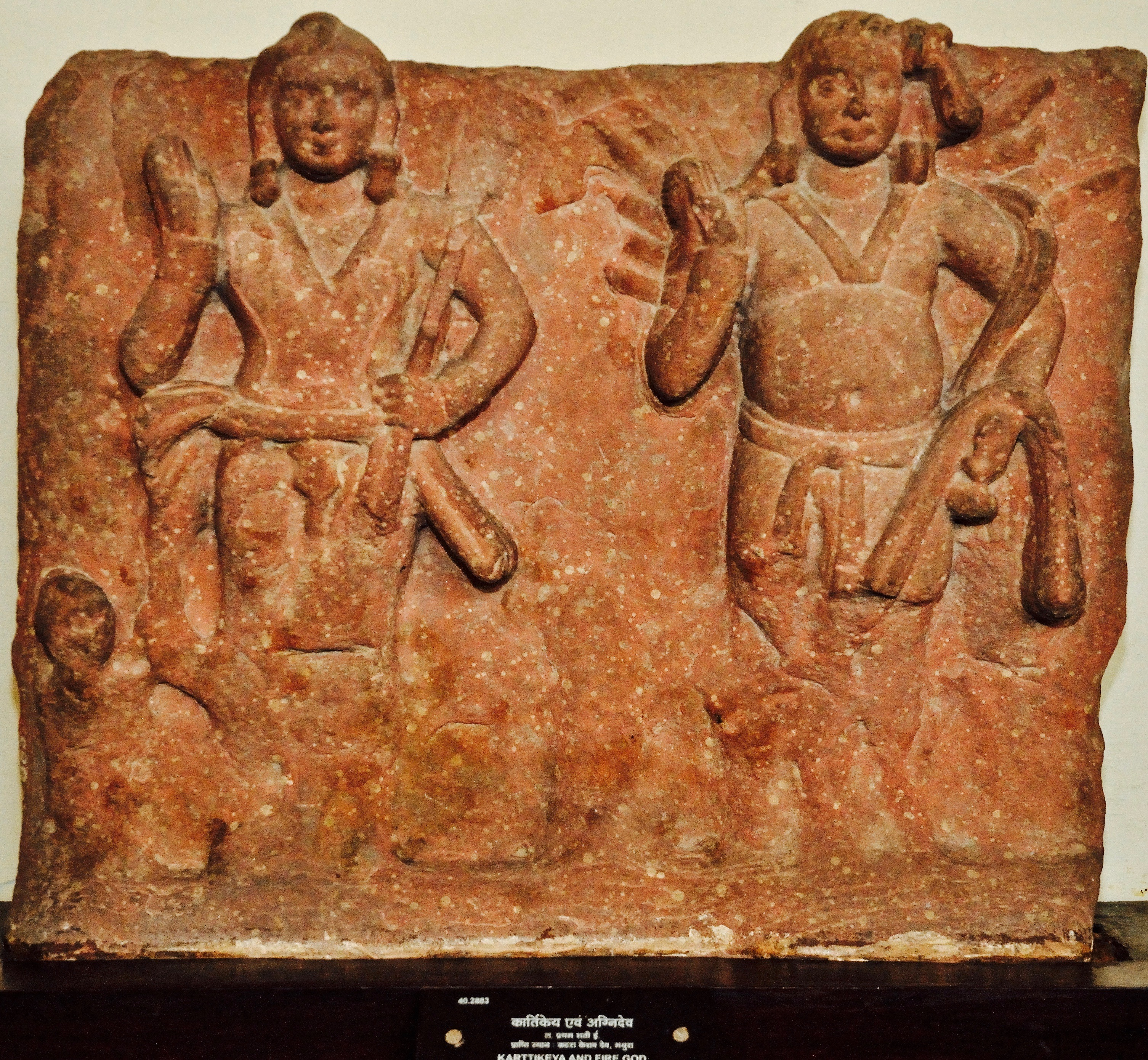 This artefact resides at the Government Museum, (hi: Rashtriya Sangrahalaya) formerly The Curzon Museum of Archaeology, Museum Road or Murari Lal Rajpal road, Dampier Nagar, Mathura, Uttar Pradesh, India. This museum is administered by the State Government of Uttar Pradesh of India.